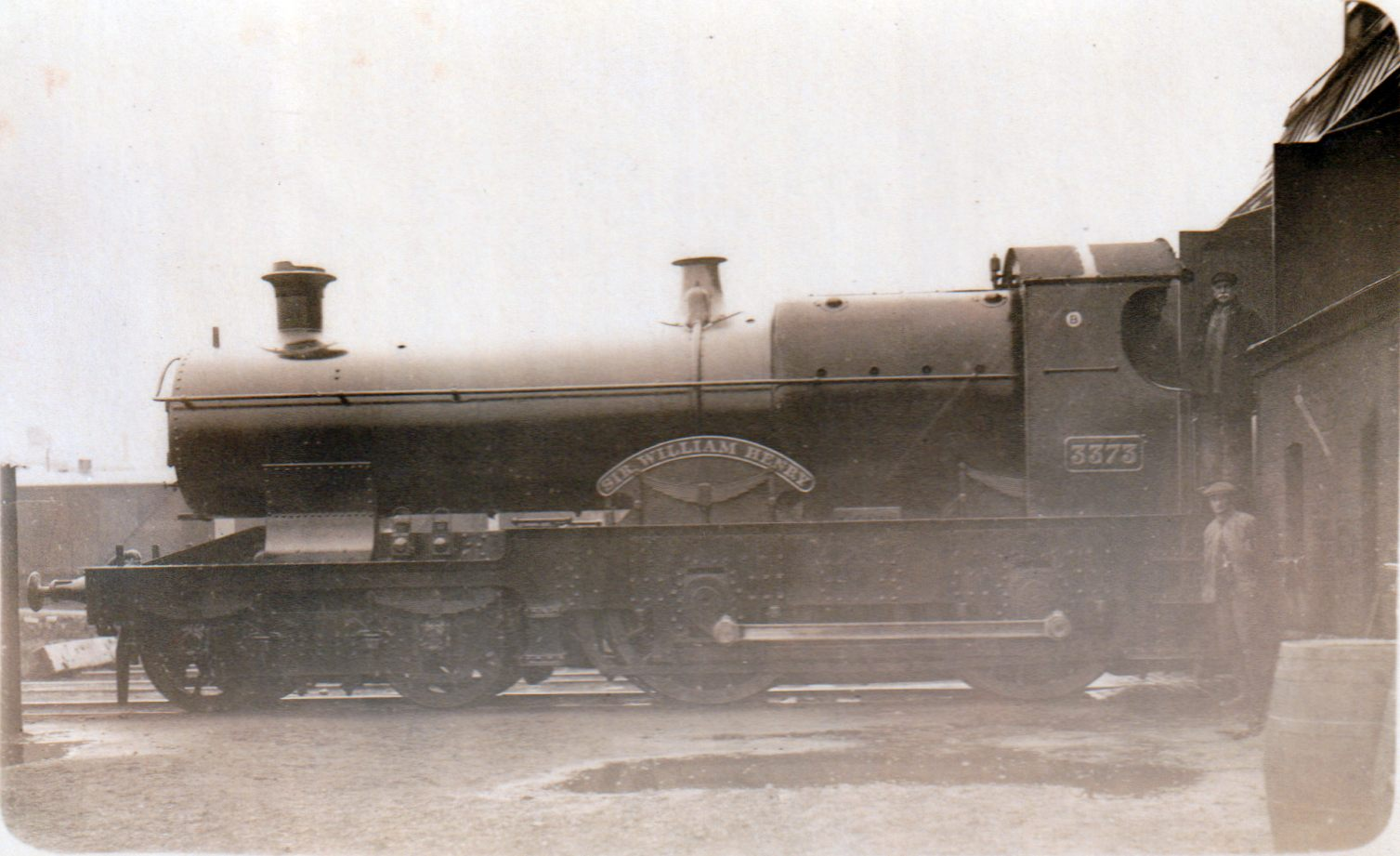 GWR 3300 straight-framed 'Bulldog' class 3373 Sir William Henry (renamed in 1906).